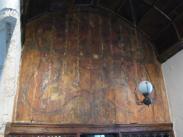 Royal Arms in Ashleworth Church, Gloucestershire